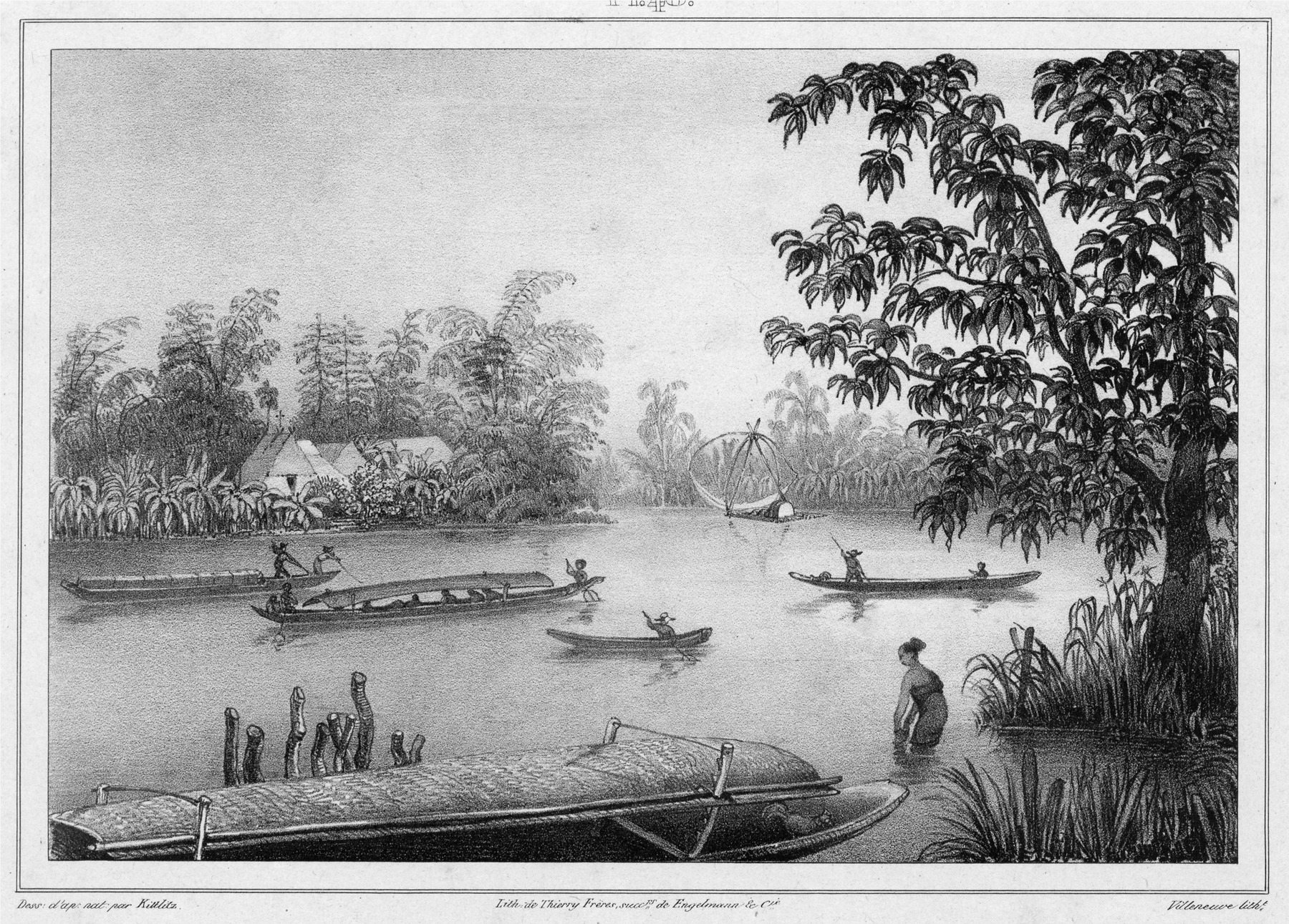 View of the Pasig River in Luzon Island, Philippine Islands, 1826-1829 Tagalog: Tanawin ng Ilog Pasig sa Isla ng Luzon, Kapuluang Pilipinas, 1826-1829